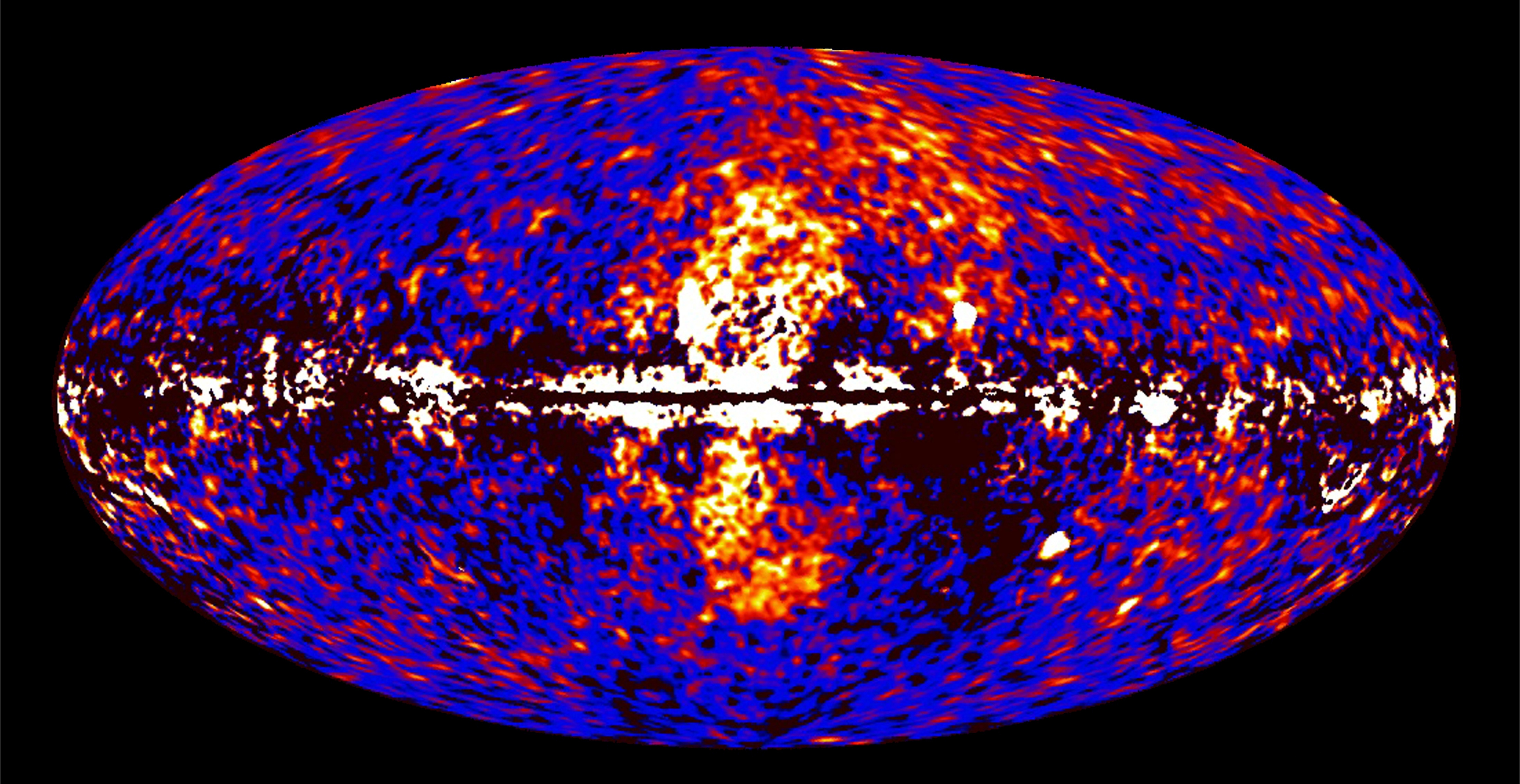 A giant gamma-ray structure emerges by processing Fermi all-sky data at energies from 1 to 10 GeV. The dumbbell-shaped feature emerges from the galactic center and extends 50 degrees north and south from the plane of the Milky Way. A supermassive black hole weighing about 4 million times the sun's mass also lurks in the galactic center; these "gamma-ray bubbles" may have arisen as a result of a past eruption by the black hole or another source near the galactic center.